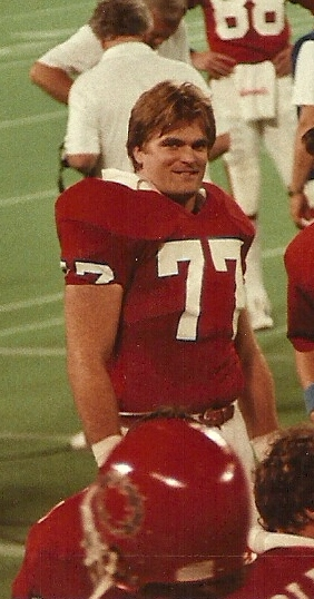 Todd Thomas 1983 NJ Generals - USFL